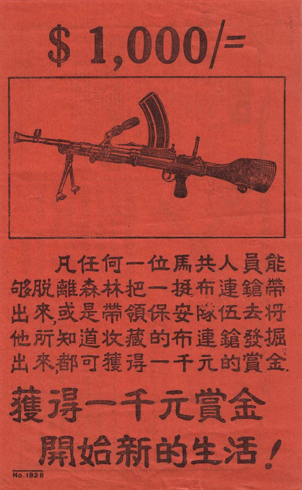 Leaflet dropped on Malayan Communist Forces in 1953. Chinese text reads: "If any member of the Malayan Communist Party is able to leave the jungle and bring out a Bren gun, or able to lead the Peace Keeping Forces to unearth a hidden Bren gun that he or she knows about, he will be eligible for a $1,000 reward. Receive a $1,000 reward to start a new life!"